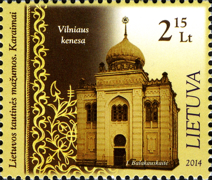 Stamps of Lithuania, 2014